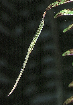 Female of Miagrammopes oblongus from Okinawa (Japan).